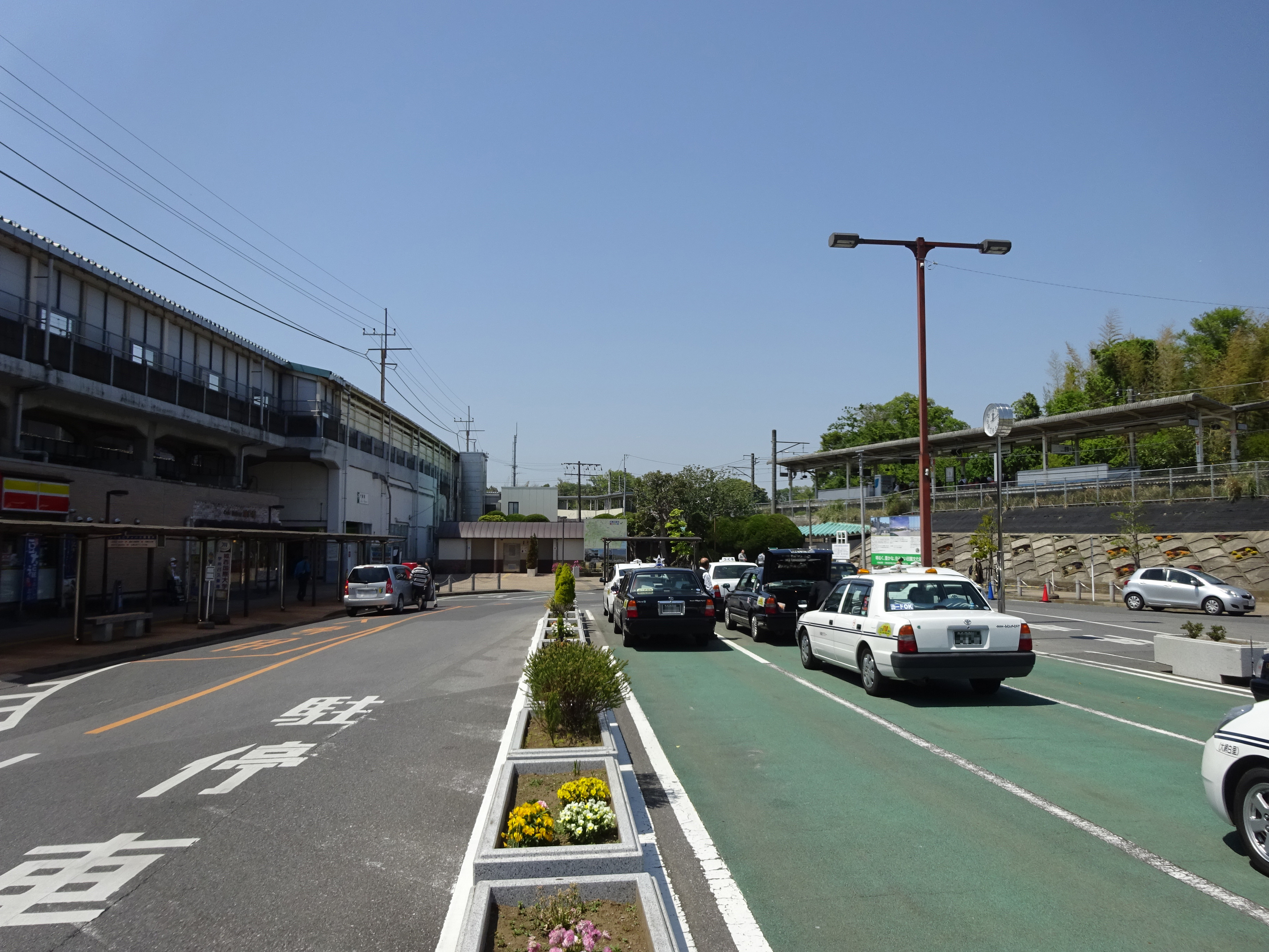 Ōami Station